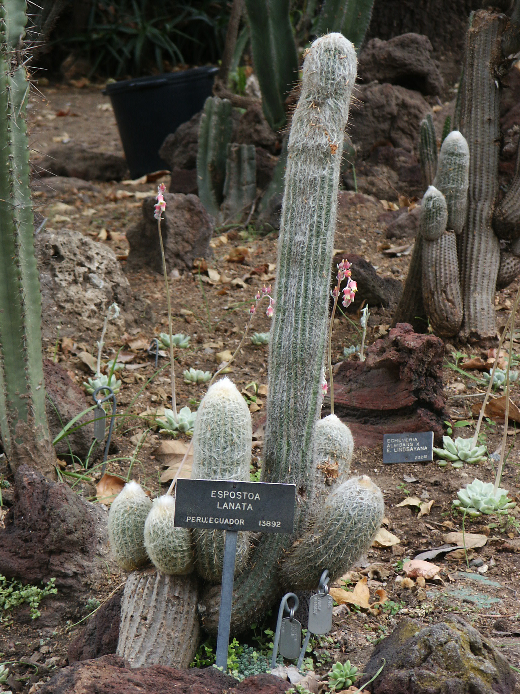 Espostoa lanata in the front, Echiveria albicans X E. lindsayana rosettes behind them - Huntington Library Desert Garden May 2009